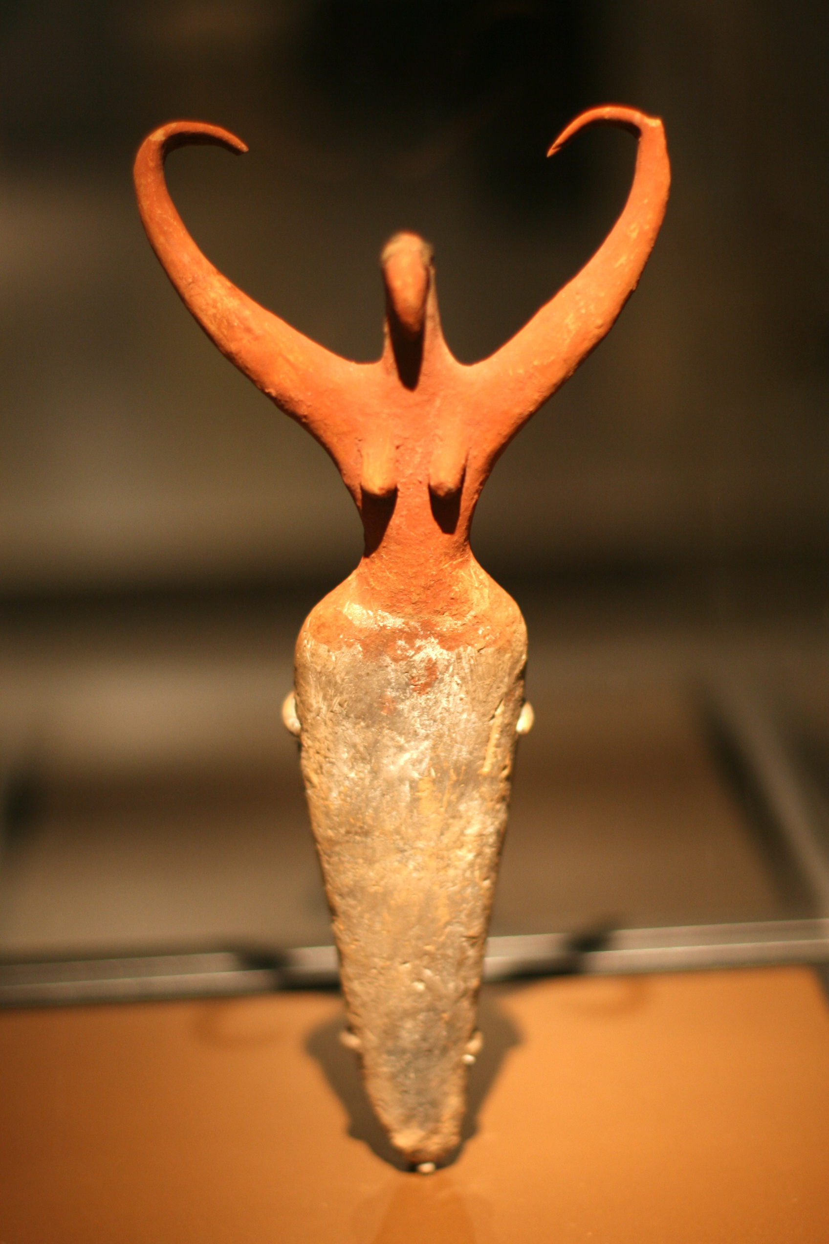 Female figure with bird traits (predynastic Egypt)